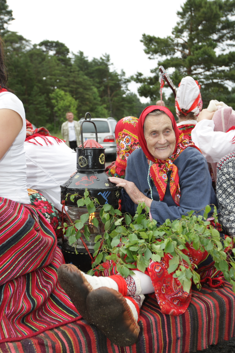 Estonian folk musician Kihnu Virve (Virve Köster) with the Song and Dance Celebration flame, 2009.